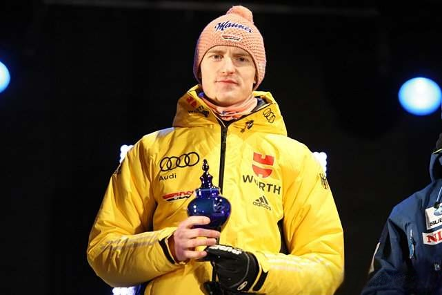 Severin Freund after individual competition of FIS Ski-Flying World Championships 2012.